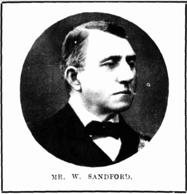 William Sandford was a British-Australian industrialist. This photograph is from an article concerning the construction of his comany's blast furnace at Lithgow.